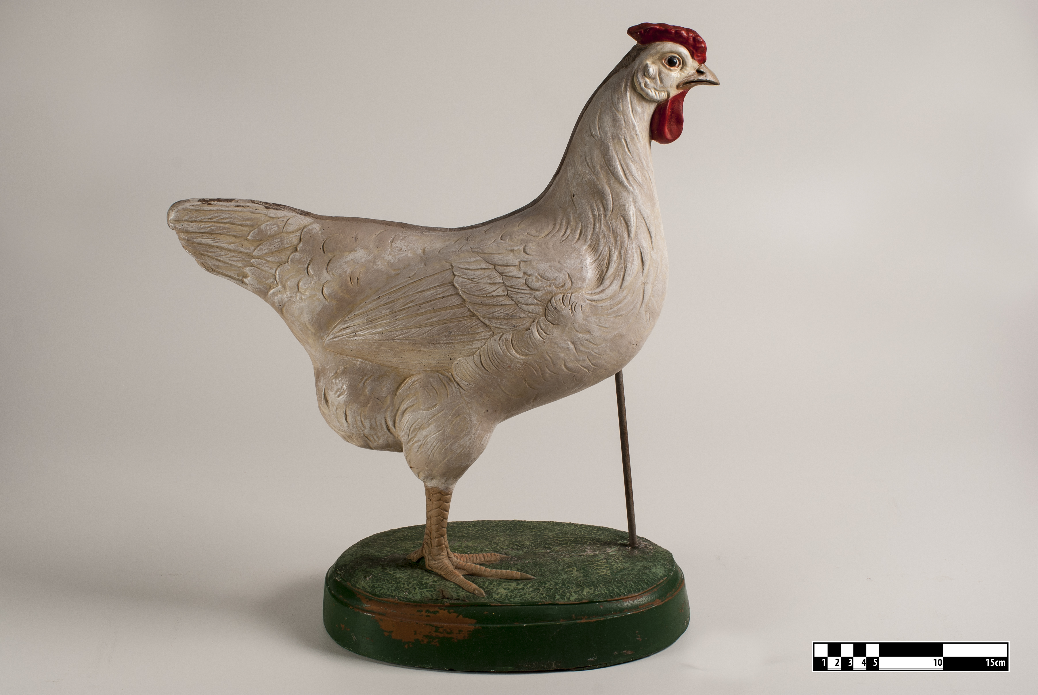 Chicken anatomy. Teaching model representing different parts of the chicken on display at the Museum of Veterinary Anatomy, FMVZ USP. This file was published as the result of a partnership between the Museum of Veterinary Anatomy FMVZ USP, the RIDC NeuroMat and the Wikimedia Community User Group Brasil. This GLAM project is reported. Photography: Museum of Veterinary Anatomy FMVZ USP. Author: Wagner Souza e Silva.